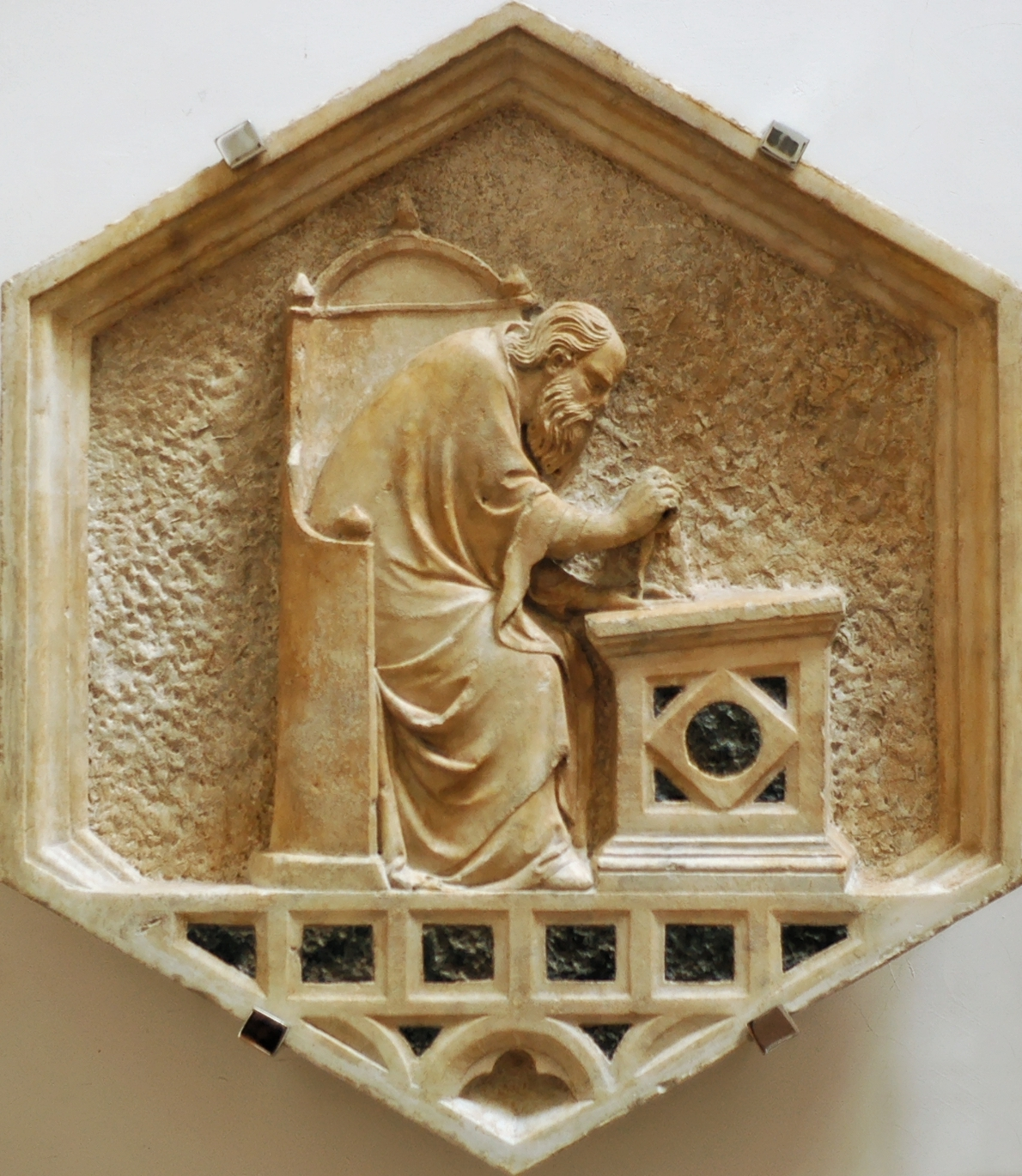 Euclid, or the Architecture. Marble panel from the East side, lower basement of the bell tower of Florence, Italy. Museo dell'Opera del Duomo.